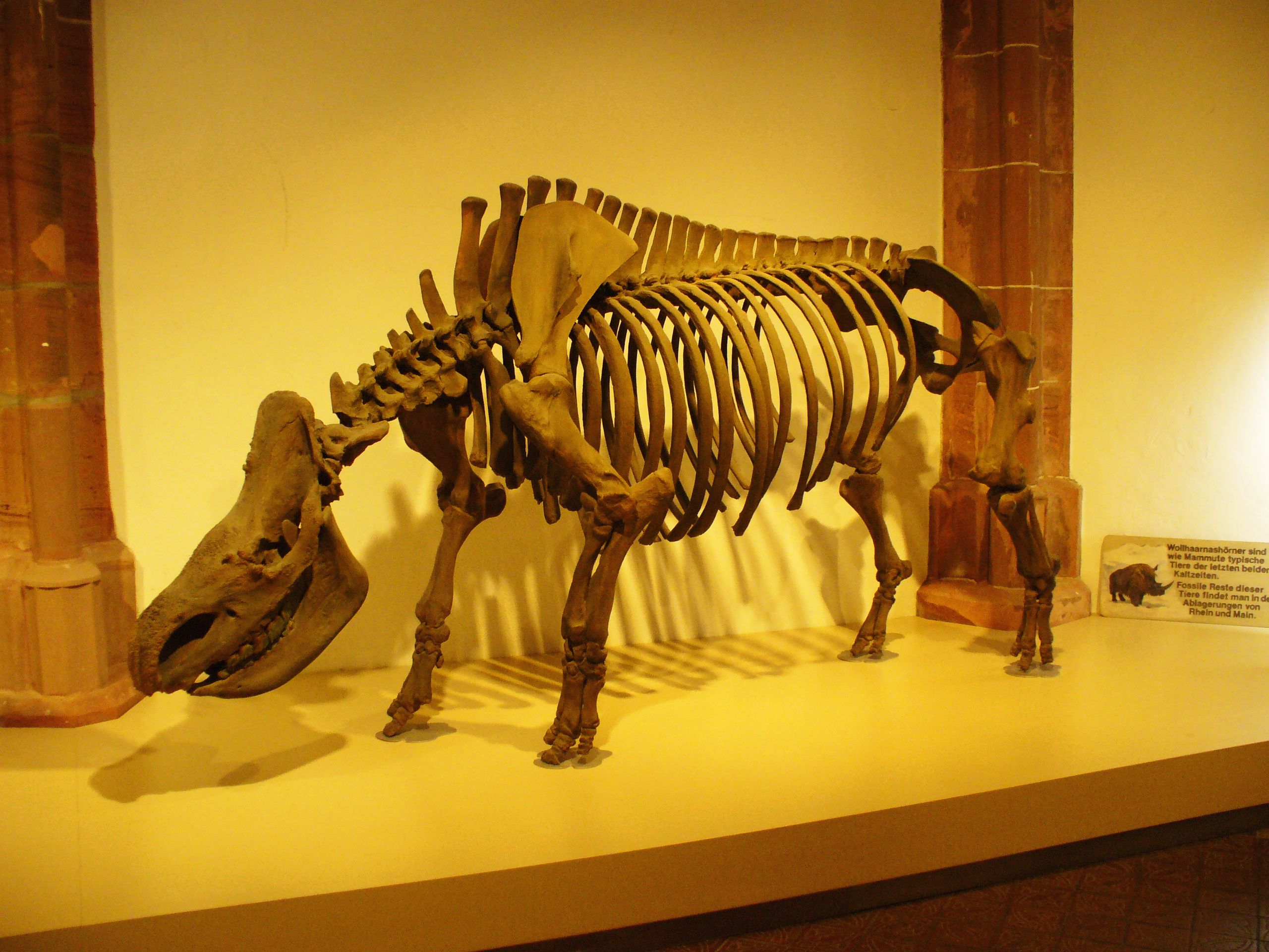 Woolly Rhinoceros (Coelodonta antiquitatis), skeleton